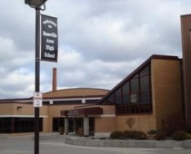 Auditorium entrance of Roseville Area High School, Roseville, Minnesota